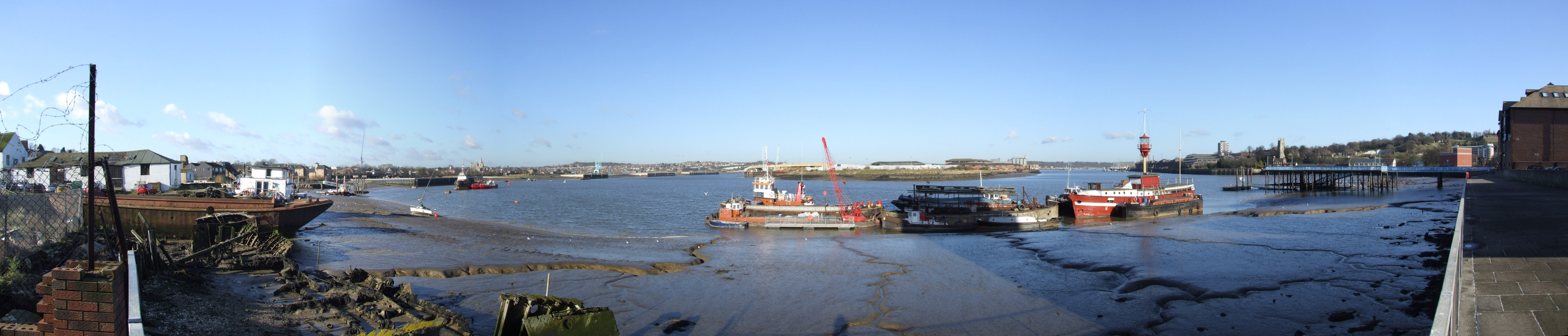 Medway Estuary at Chatham, by Sun Pier. A view of the River Medway Estuary, from Anchorage House Chatham. From Left to Right we see Limehouse Reach with Ship Pier, two trains in Rochester station, Rochester Cathedral and Castle . At Gashouse point the river veers port onto Bridge Reach. On the horizon is Strood and All Saints Frindsbury. In front is the Frindsbury Peninsula and its nearest point is Chatham Ness. Behind the lightship is Chatham Reach. On the left bank we can just see Upnor Castle, and on the horizon Chattenden. On the right bank, we see the buildings of Chatham Dockyard. Then we have Medway Council headquarters, with the flats at Melville Court behind, Chatham Parish Church, the Command House pub, sun pier with the library with Fort Amherst Caveyard behind, the Rats Bay pumping station with Upper Cornwallis battery behind.